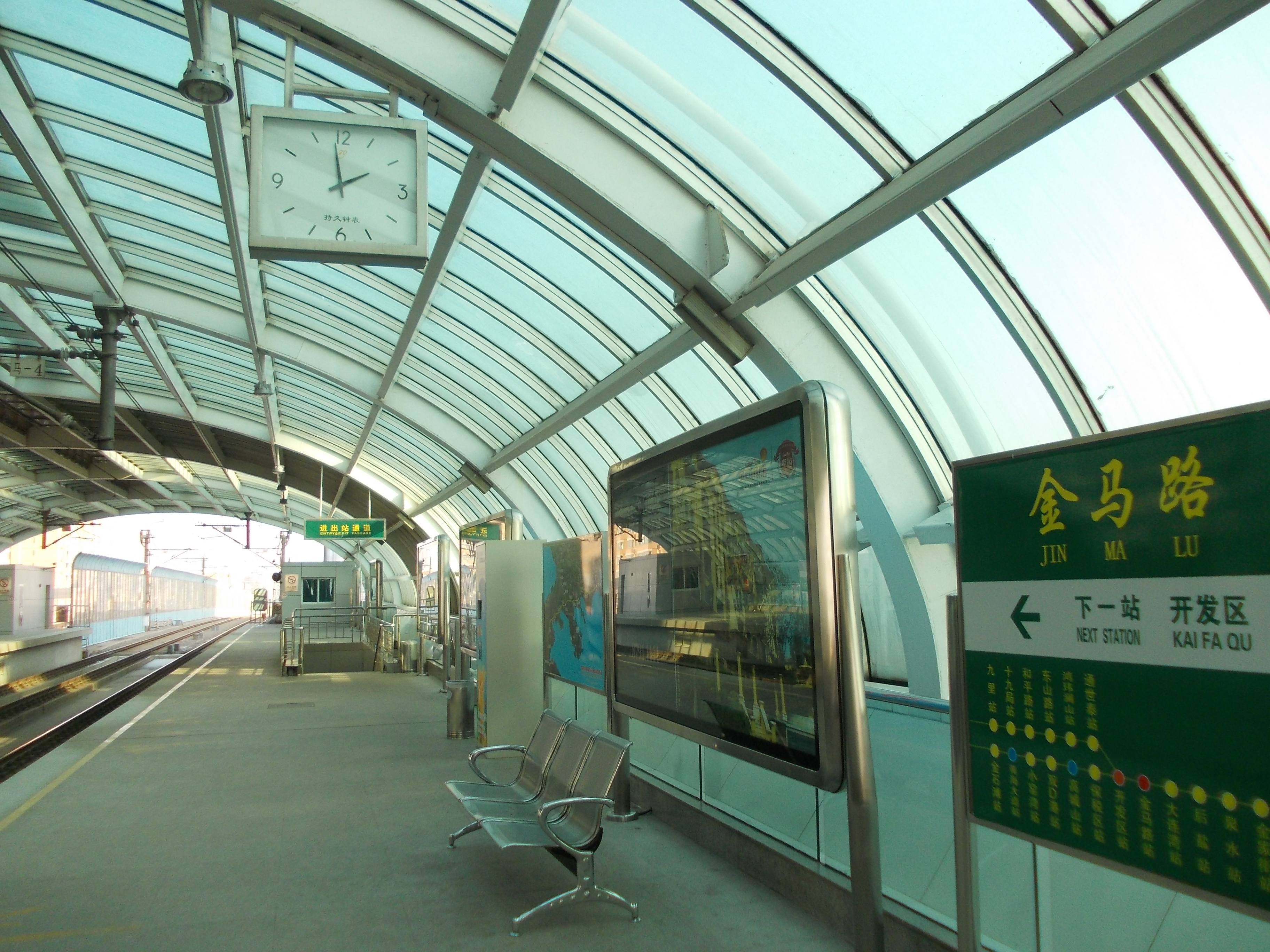 Jinmalu Station